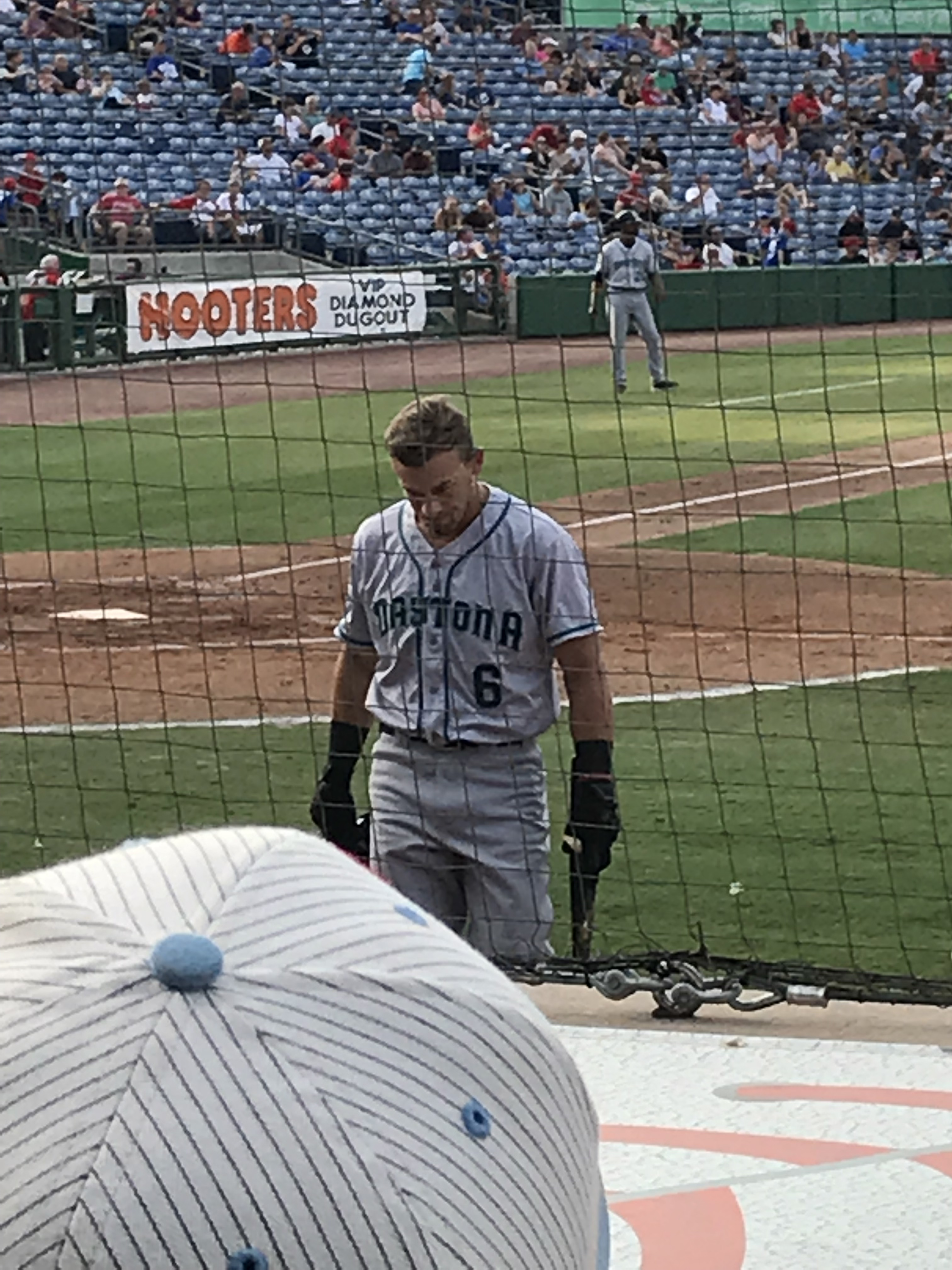 T. J. Friedl playing for the Daytona Tortugas